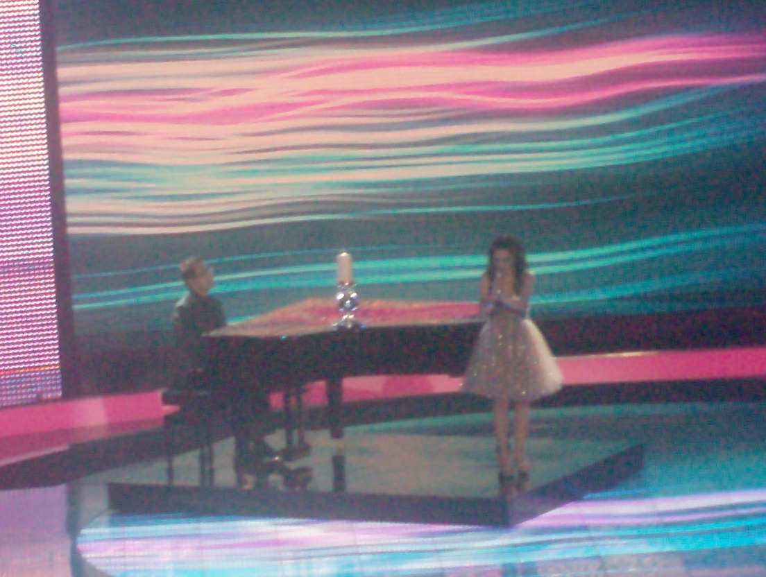 Festival RTP da Canção 2010 1st semifinal